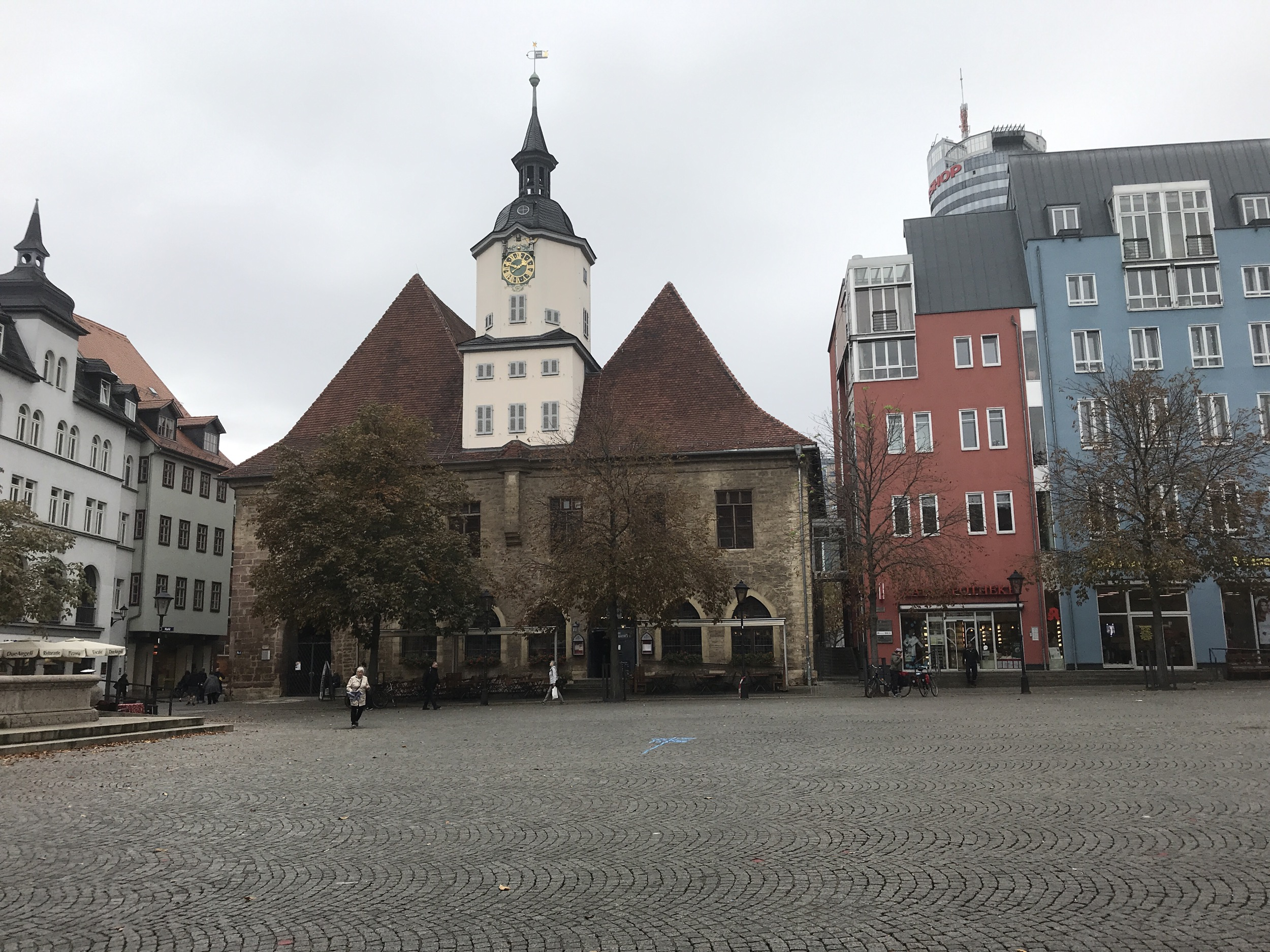 Market square in Jena, Germany